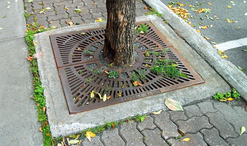 Tree guard